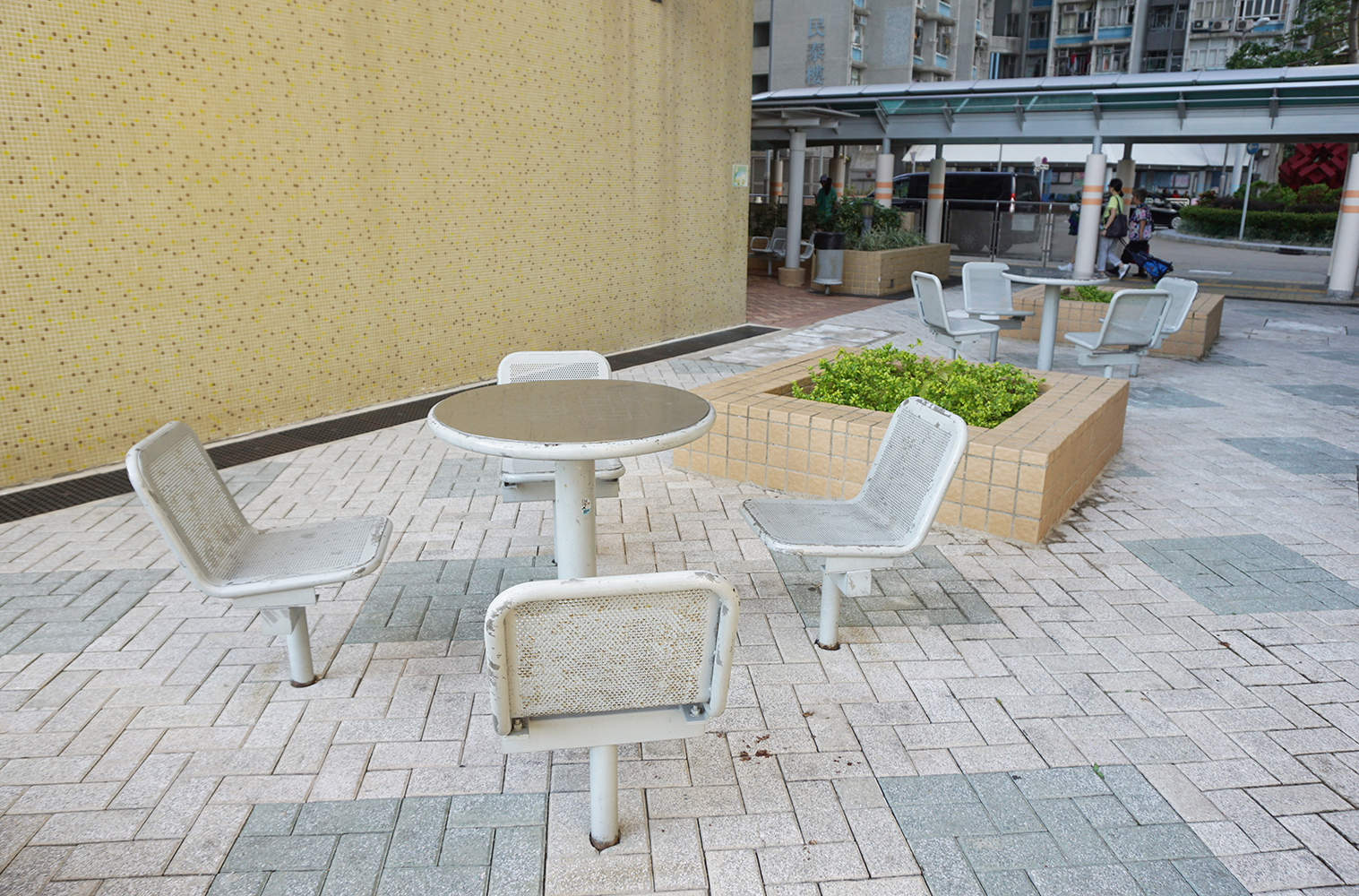 Tsz Hong Estate in Tsz Wan Shan, Hong Kong.